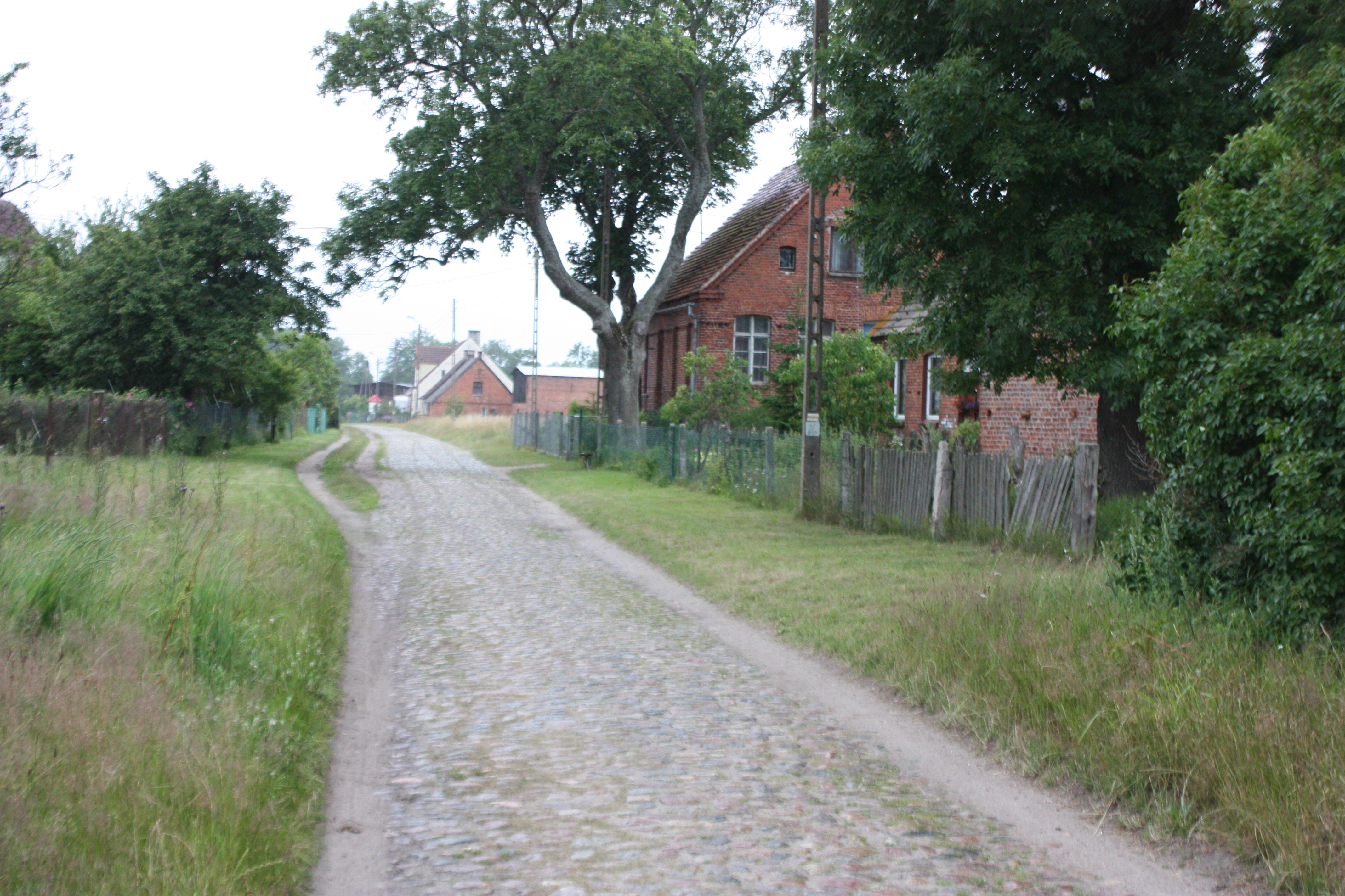 Gać - is a village in the administrative district of Gmina Główczyce, within Słupsk County, Pomeranian Voivodeship, in northern Poland. It lies approximately 11 kilometres (7 mi) north-east of Główczyce, 38 km (24 mi) north-east of Słupsk, and 85 km (53 mi) north-west of the regional capital Gdańsk.